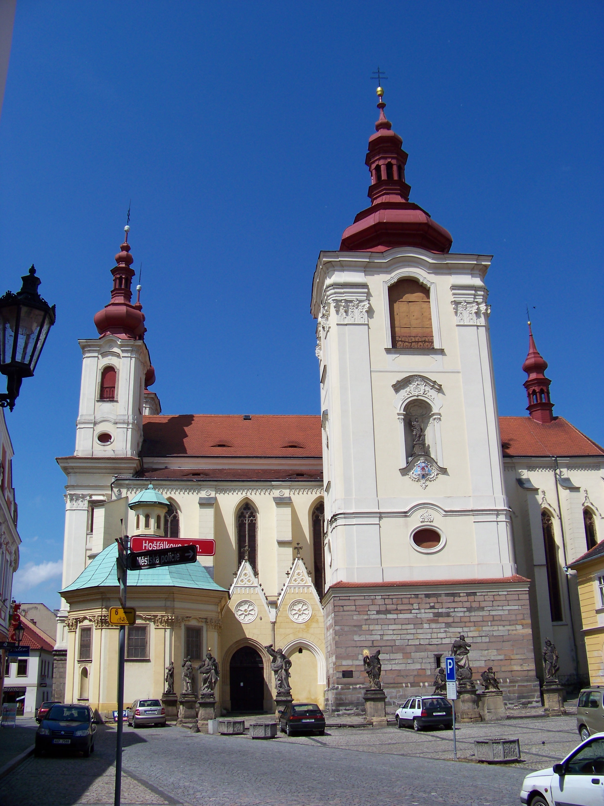 Žatec, Louny District, Ústí nad Labem Region, Czech Republic. Hošťálkovo náměstí, church of the Assumption of the Virgin Mary.